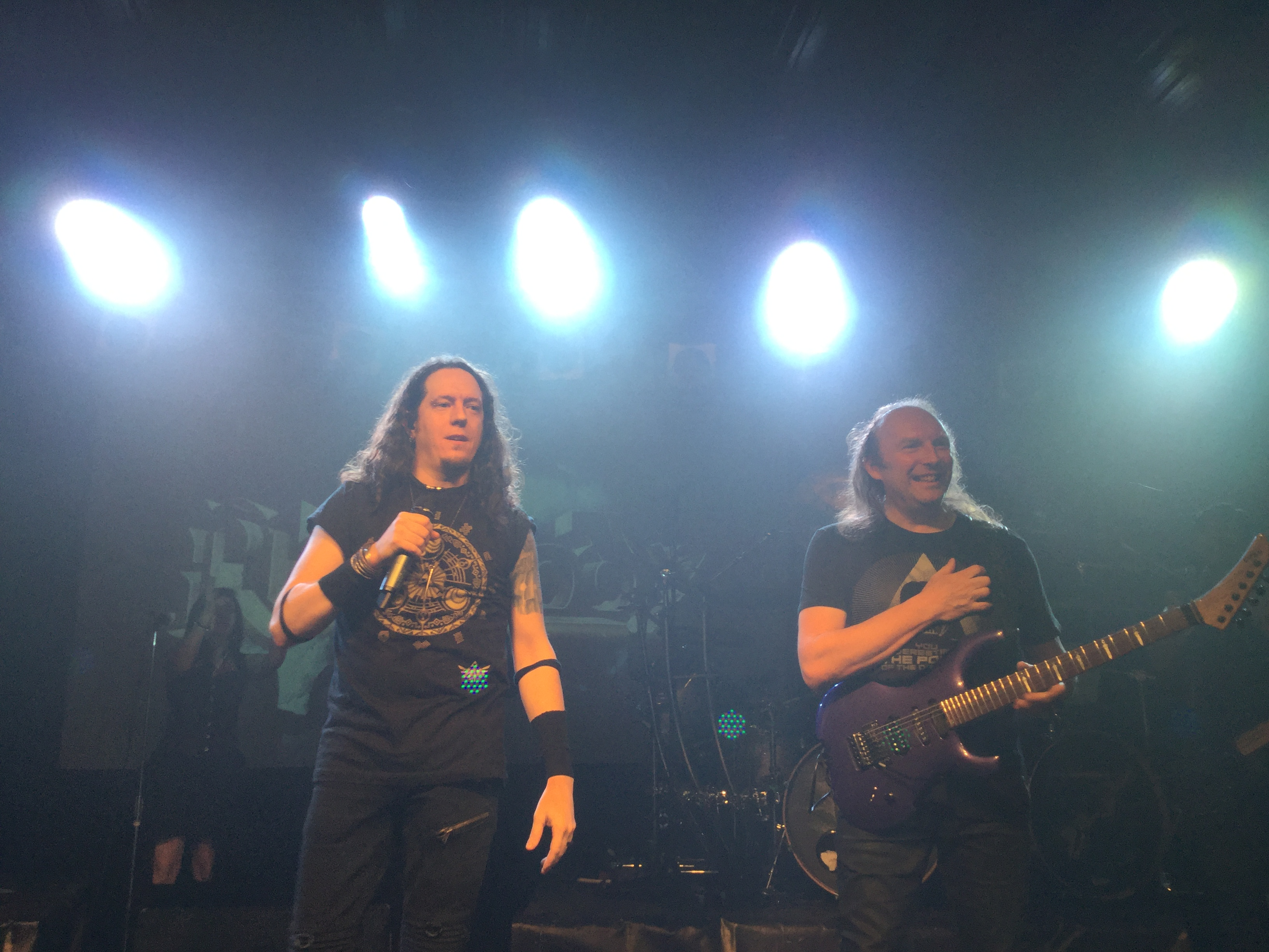 Luca Turilli's Rhapsody live in Munich (2016): Alessandro Conti and Dominique Leurquin